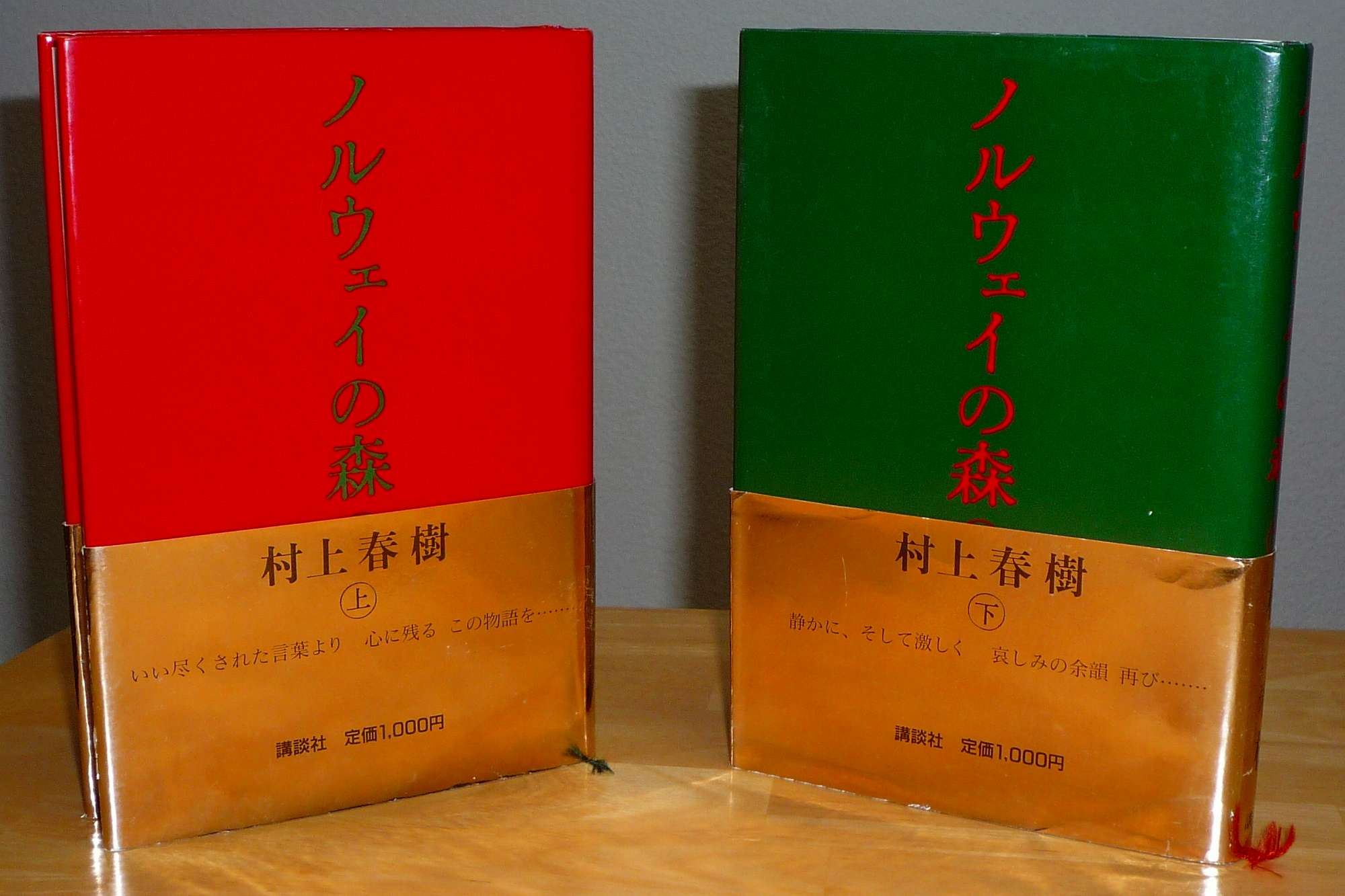 Belly Band of Norwegian Wood 2nd edition written by Haruki Murakami